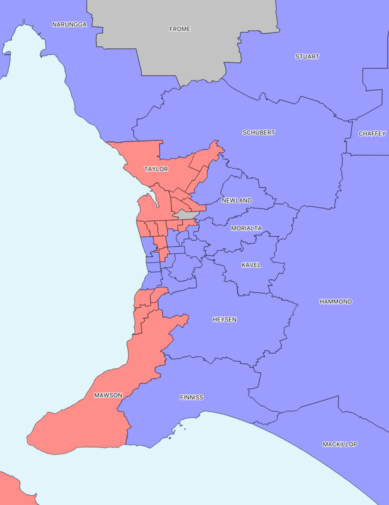 Outcome of 2018 South Australian state election in outer metropolitan Adelaide. Electoral districts are coloured by winning party: Blue = Liberal, Red = Labor, Grey = Independent.